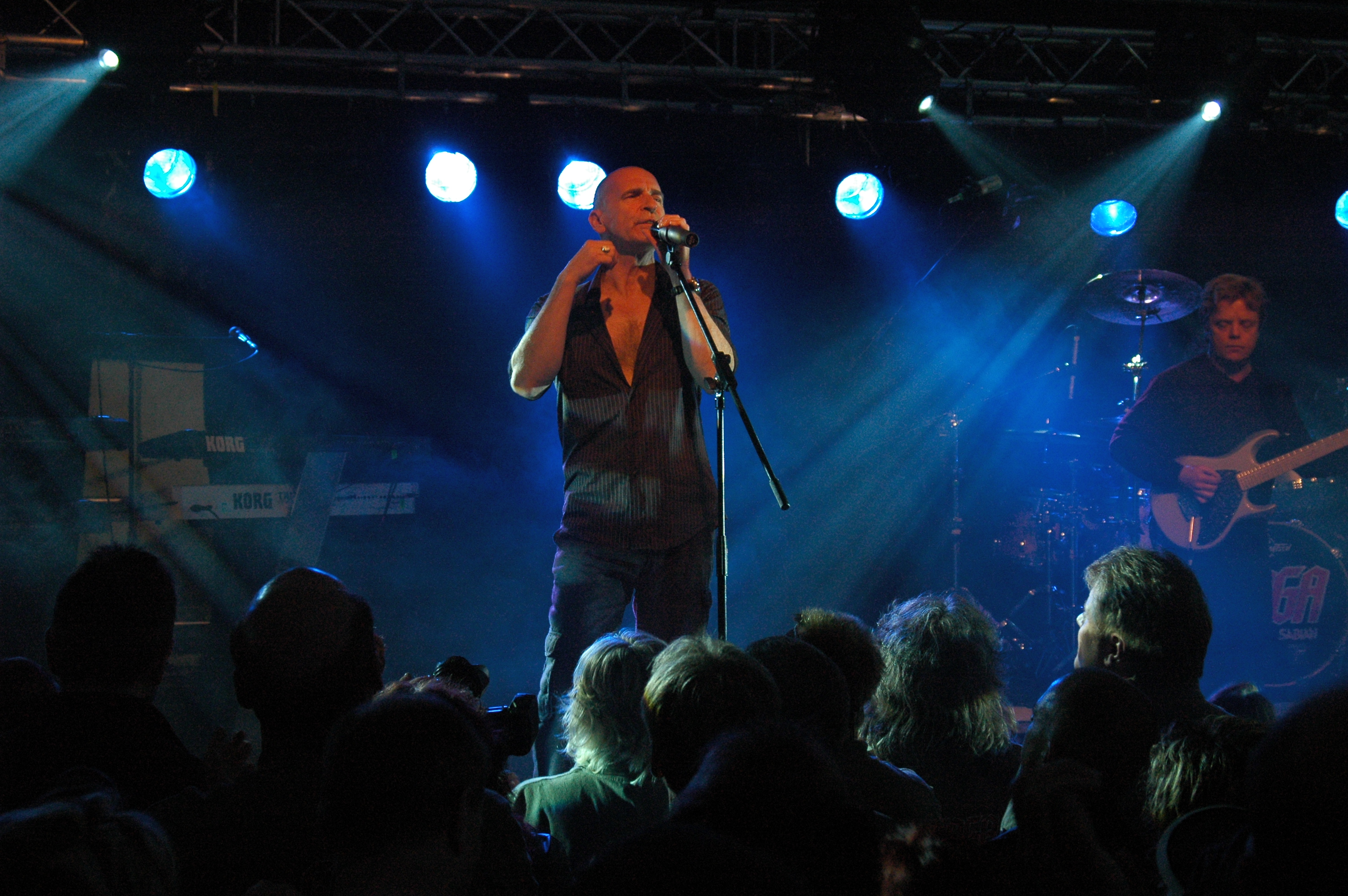 Michael Sadler, frontman of the canadian rock band Saga, in front of the crowd in a concert in dexheim, germany.